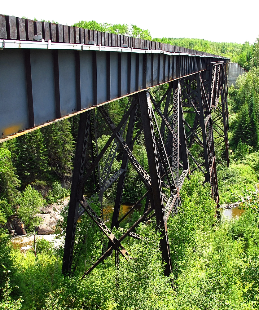 Trestle over Blanche River north of Englehart, Ontario, Canada.